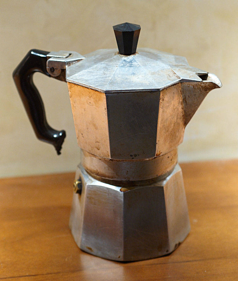 Used moka pot